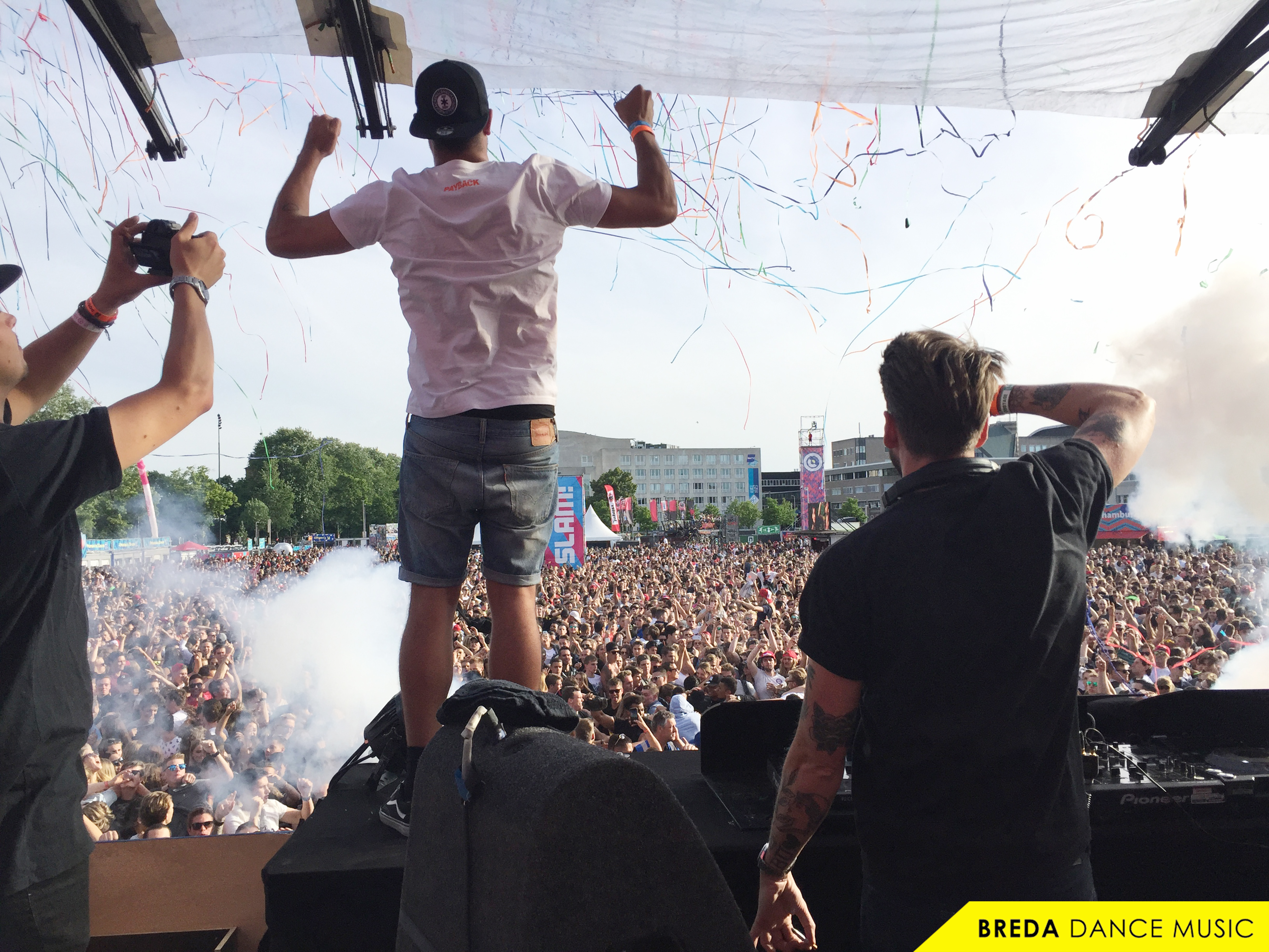 Kris Kross Amsterdam playing live at Breda Dance Music Festival 2017